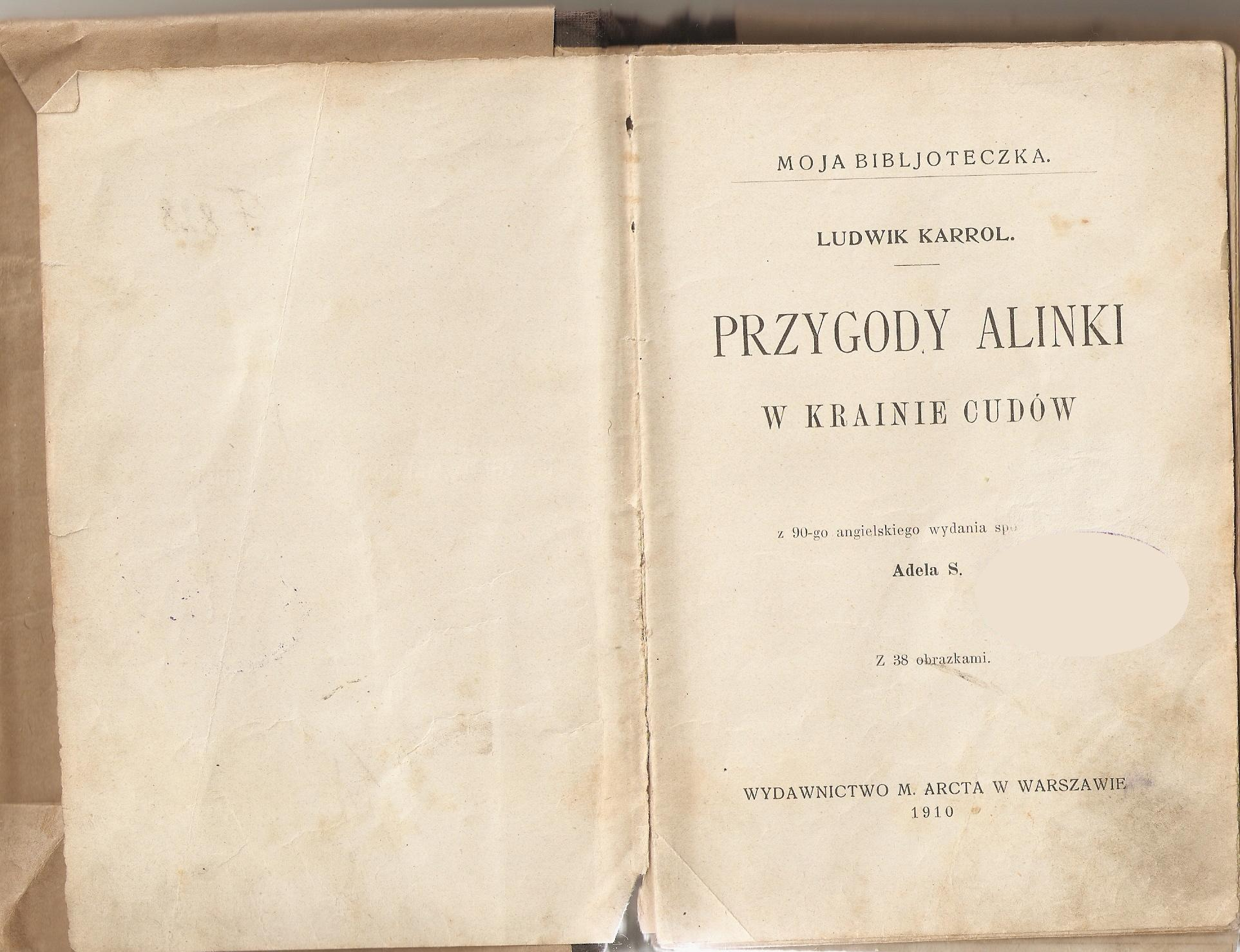 Title page